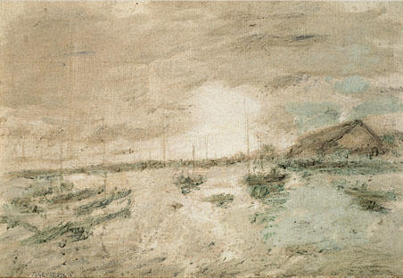 El Puerto de La Guaira